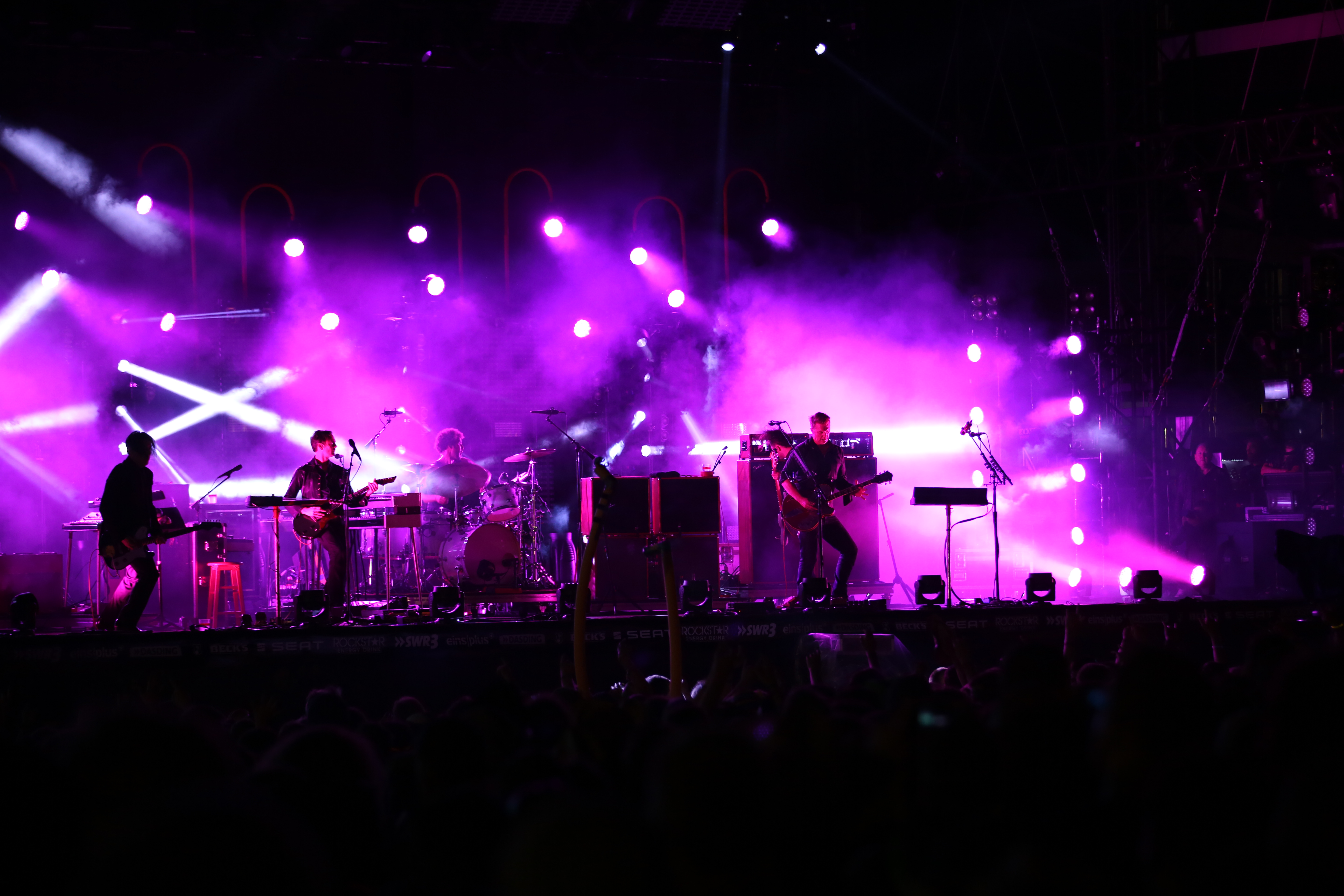 Queens of the Stone Age bei Rock am Ring 2014.